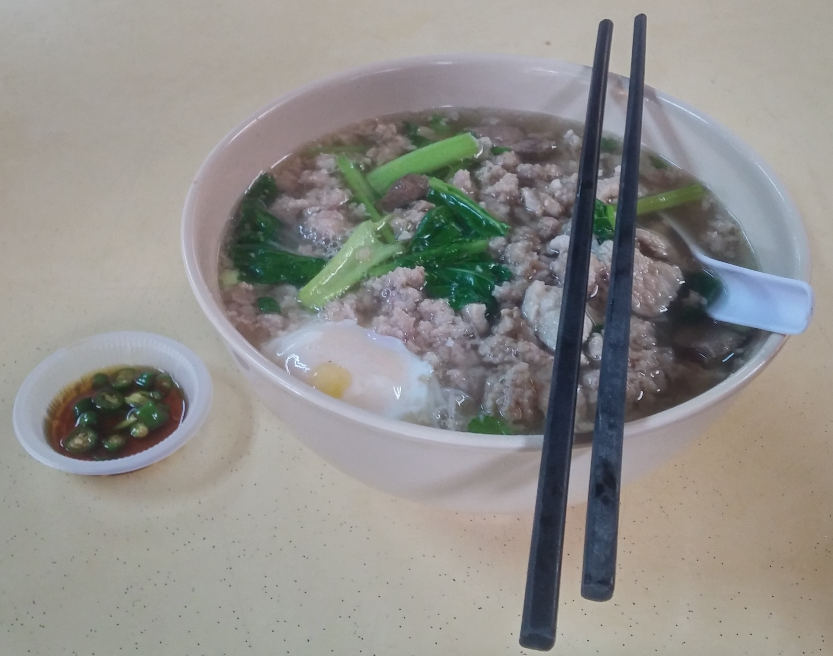 Peter's Pork Noodle, Brickfields, Kuala Lumpur